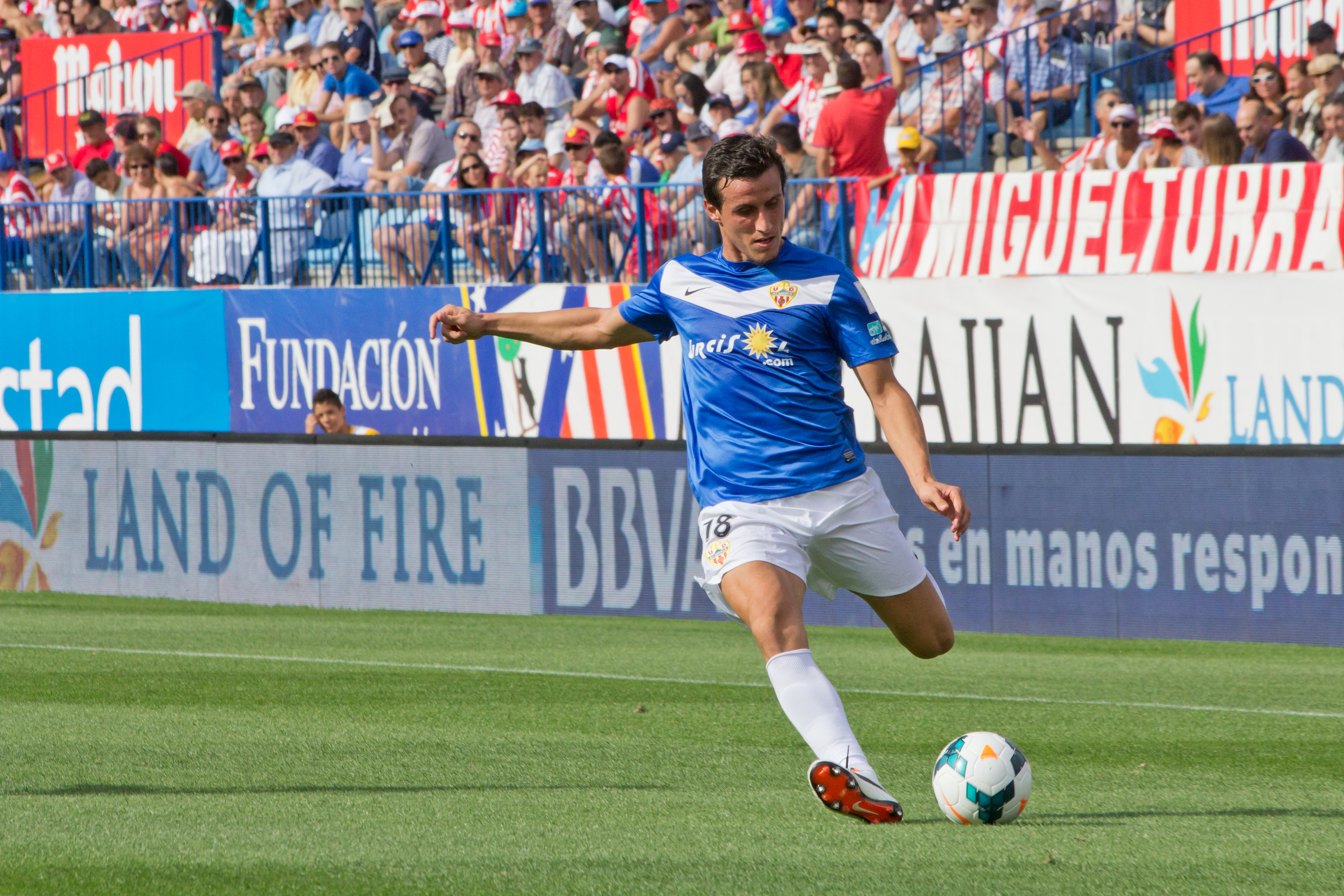 Spanish football player Christian Fernández Salas during a game with UD Almería against Atlético de Madrid at Vicente Calderón Stadium.